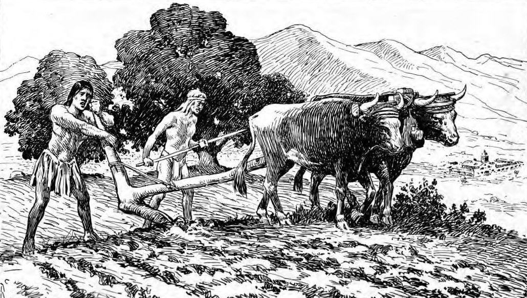 Natives utilize a primitive plow to prepare a field for planting near Mission San Diego de Alcalá. Drawing by A.B. Dodge. Taken from p. 119 of San Diego Mission by Engelhardt, Zephyrin (1920).